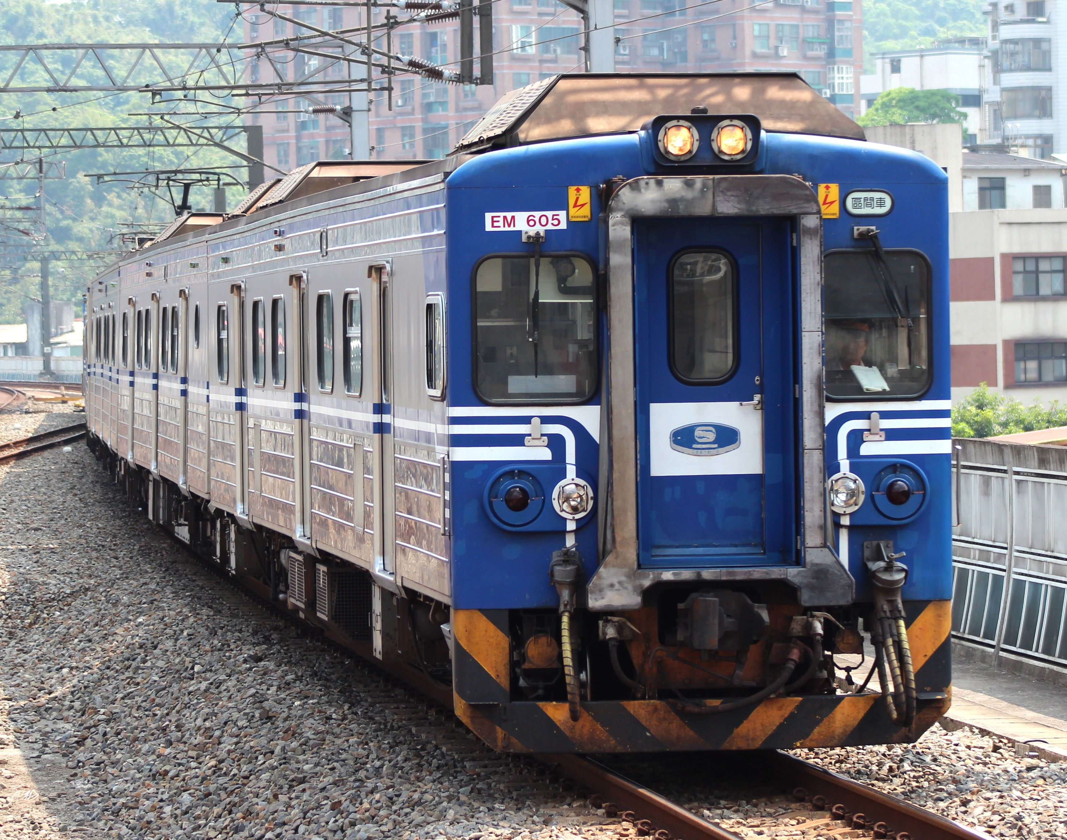 Taiwan Railway EMU600 series in Xizhi Station